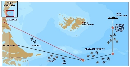 Chart showing the Argentine air attack on the British aircraft carrier HMS Invincible (R05) in 1982. Source: Journalist Horacio Cambeiro.